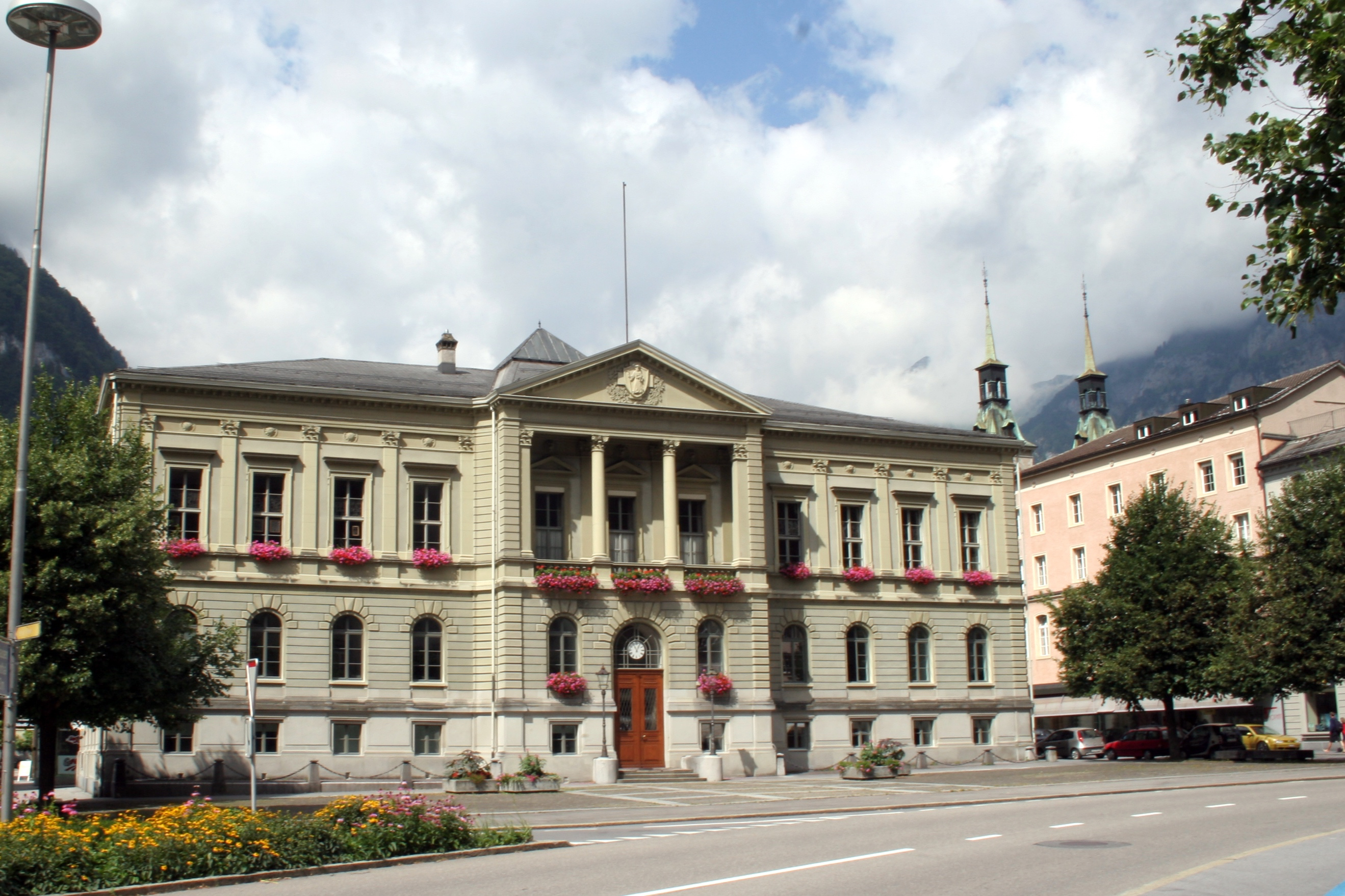 Townhall of Glarus, GL, Switzerland.